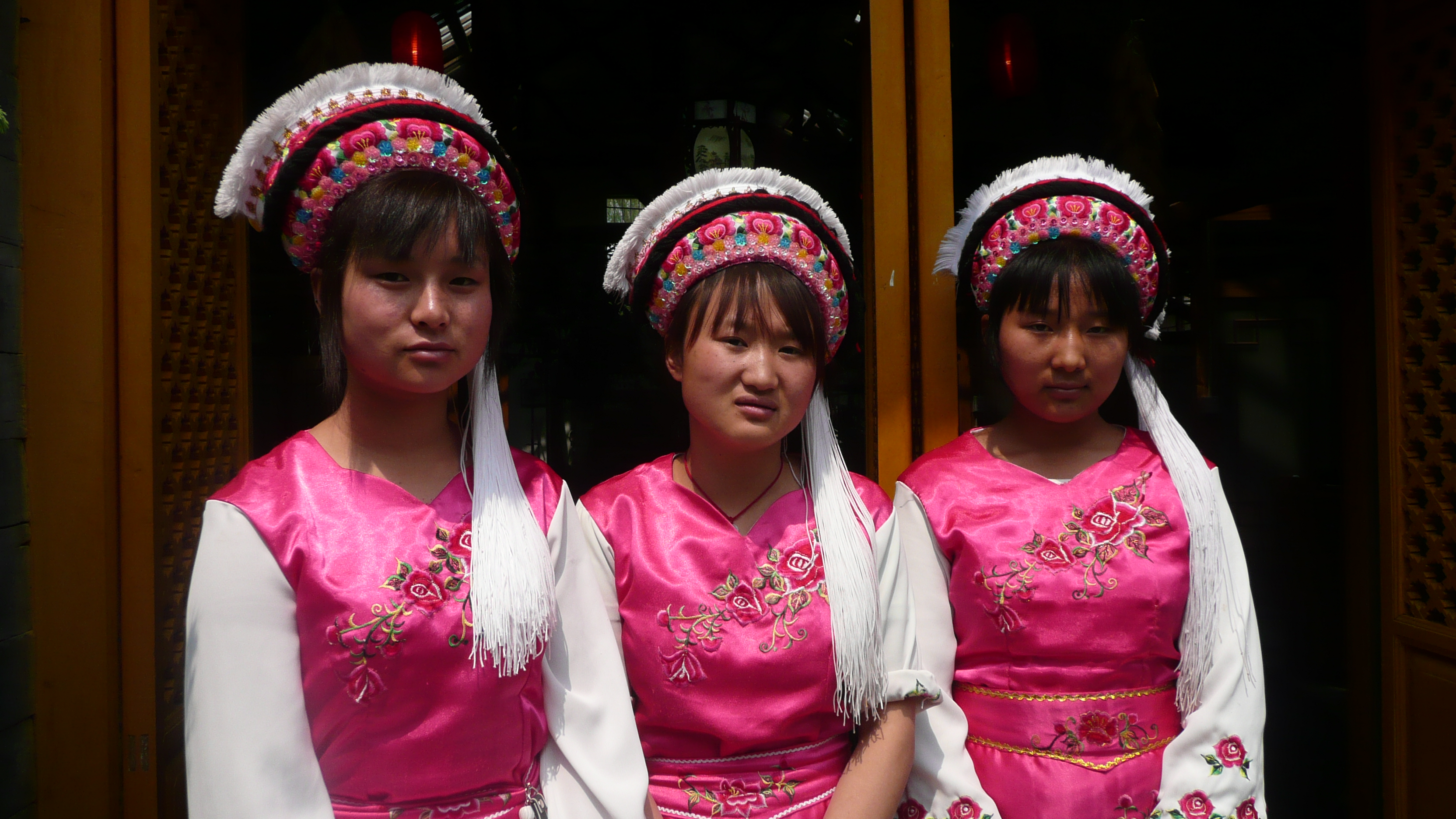 Bai minority in Dali (Yunnan)